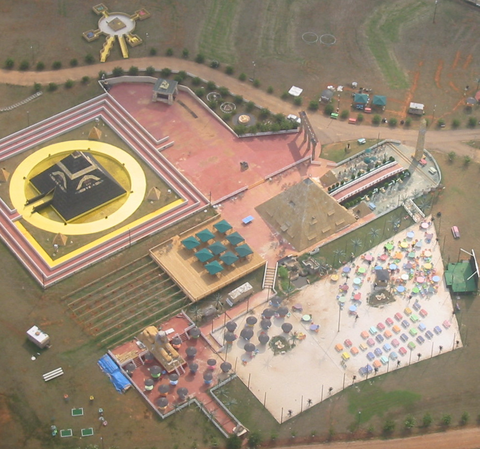 Central pyramid of the "Tama-Re" compound, as seen from the air.